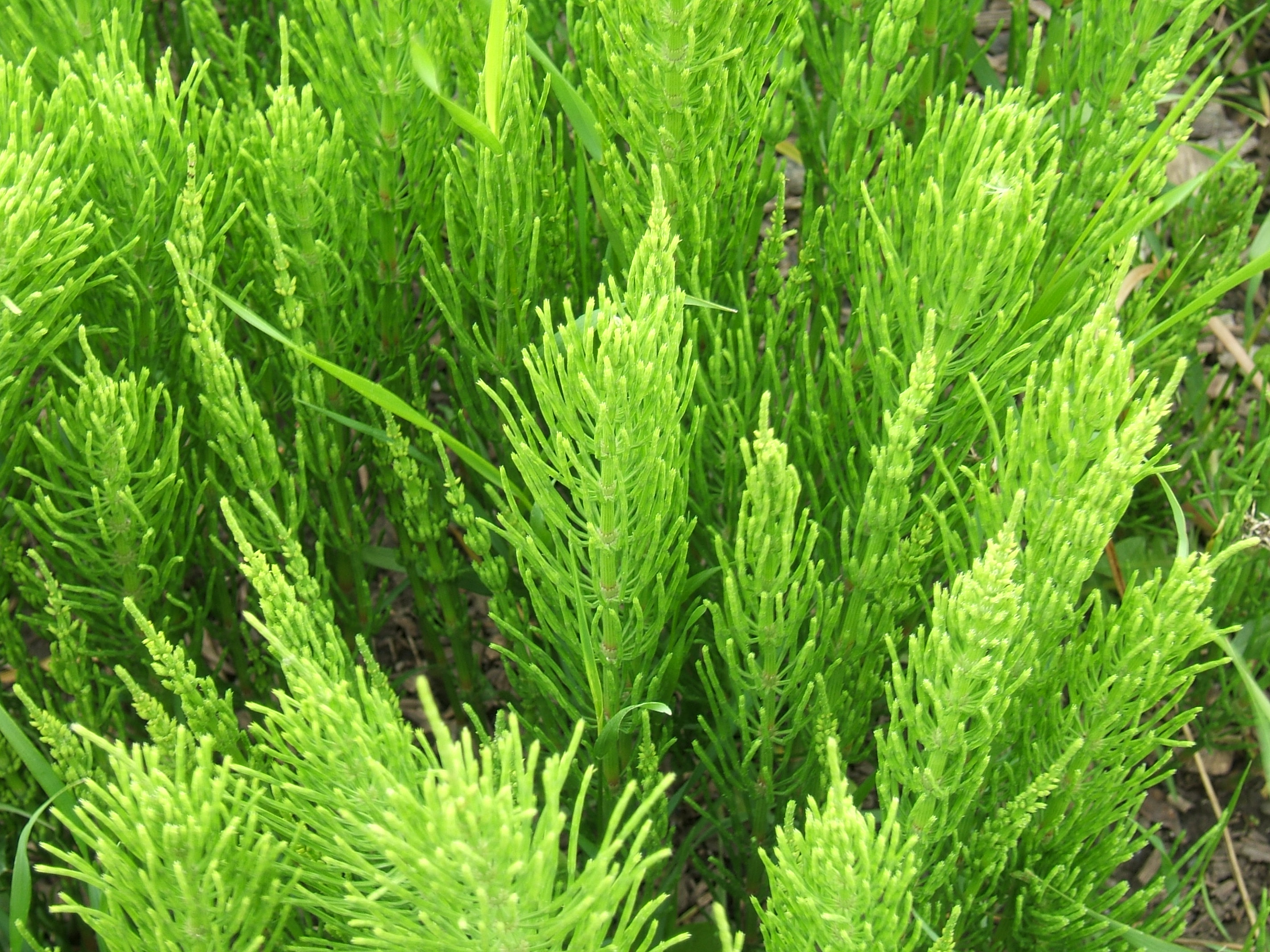 Equisetum arvense foliage, Newcastle, Northumberland, UK